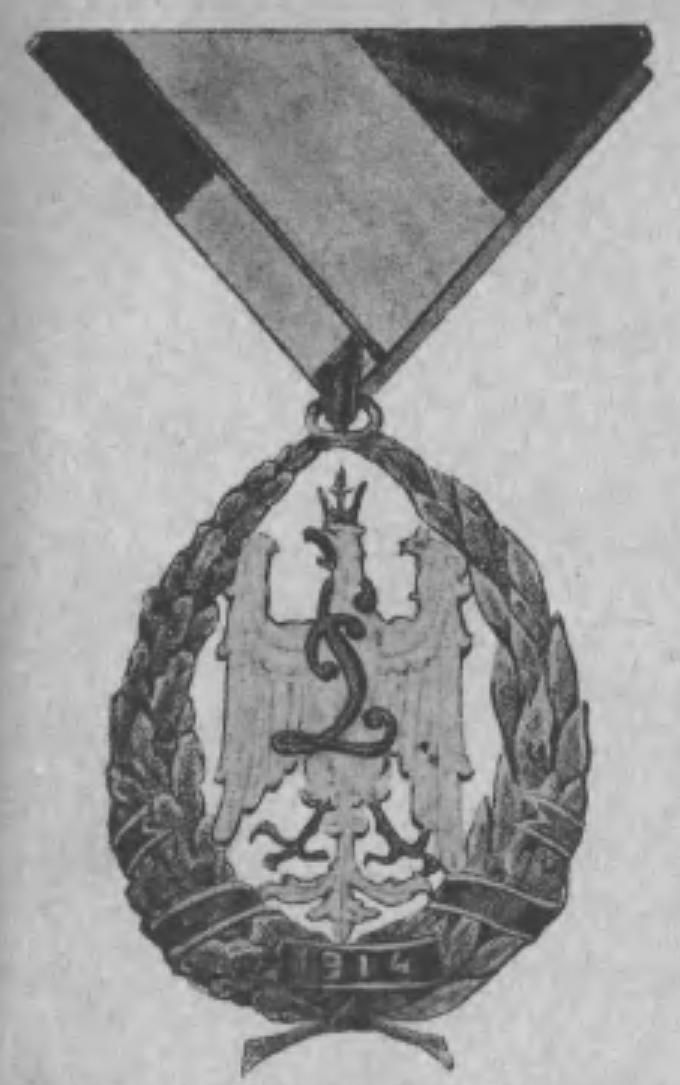 Badge commemorating soldiers of the Legion Pulaski established in 1918